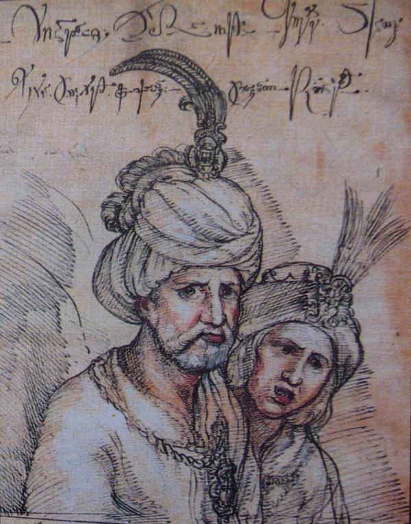 King Taymuraz I and his Queen. According to Castelli: Taimorasse Kan, once prince of a great part of Iberia, who, after the depopulation of the country by the Persians, went to Moscow . . . a great prince and Defender of the Faith. Teimuraz I and his wife. A sketch by the Catholic missionaire Don Cristoforo De Castelli